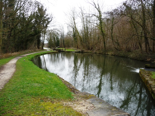 Short pound between Thorpe Bottom and Limehouse locks on the Chesterfield Canal